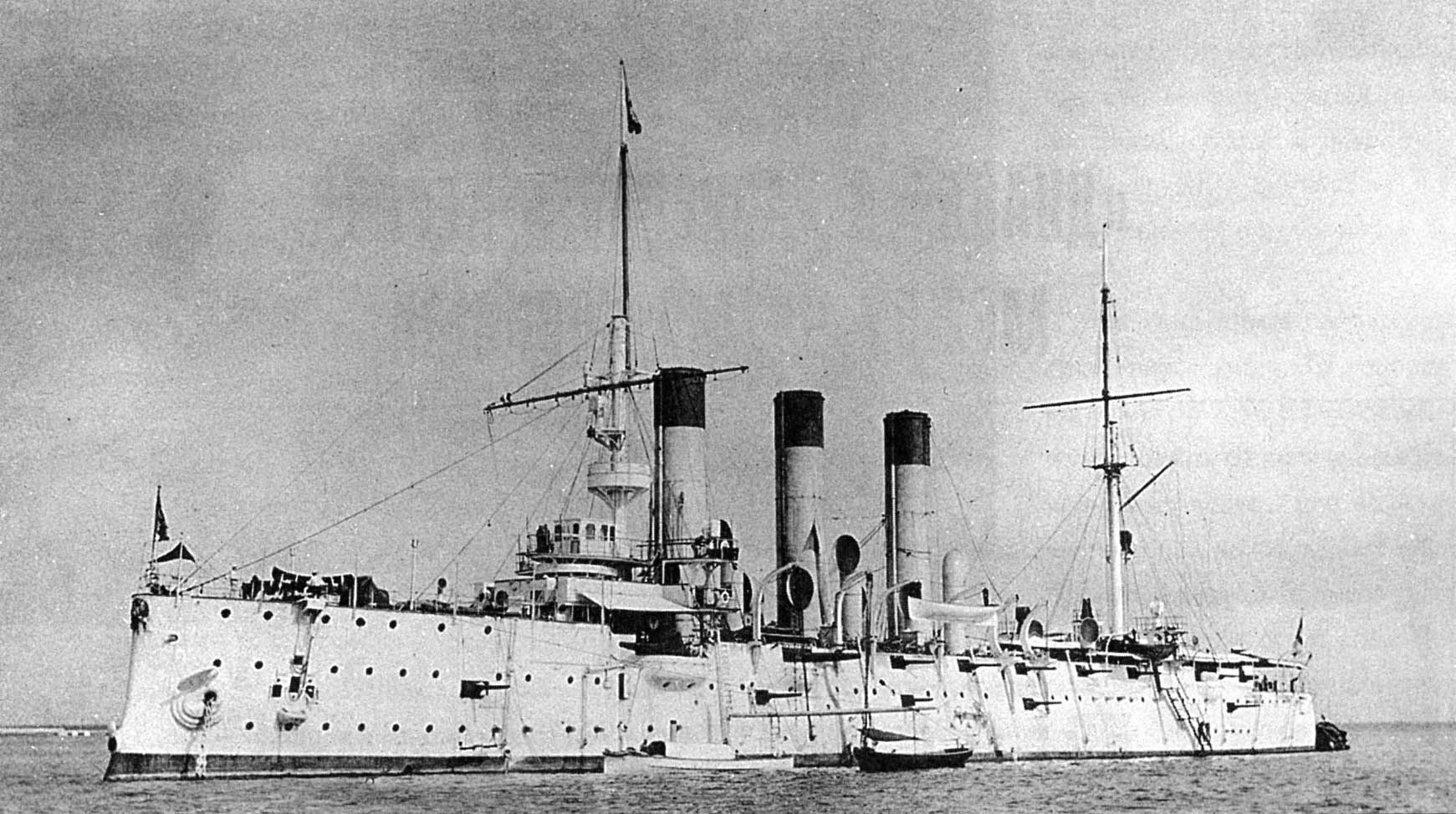 Cruiser Avrora, 1905.